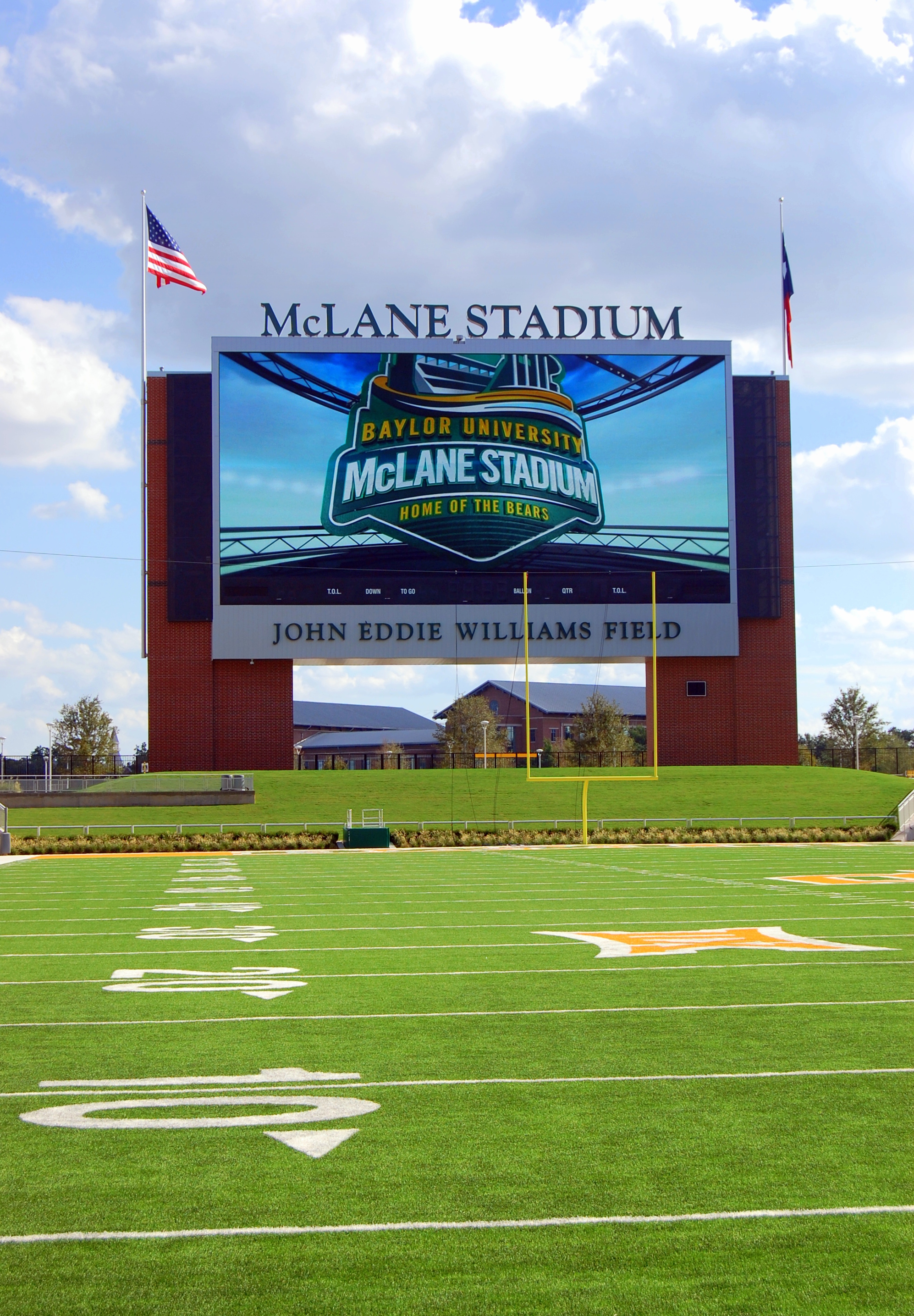 Video board for Baylor University's McLane Stadium